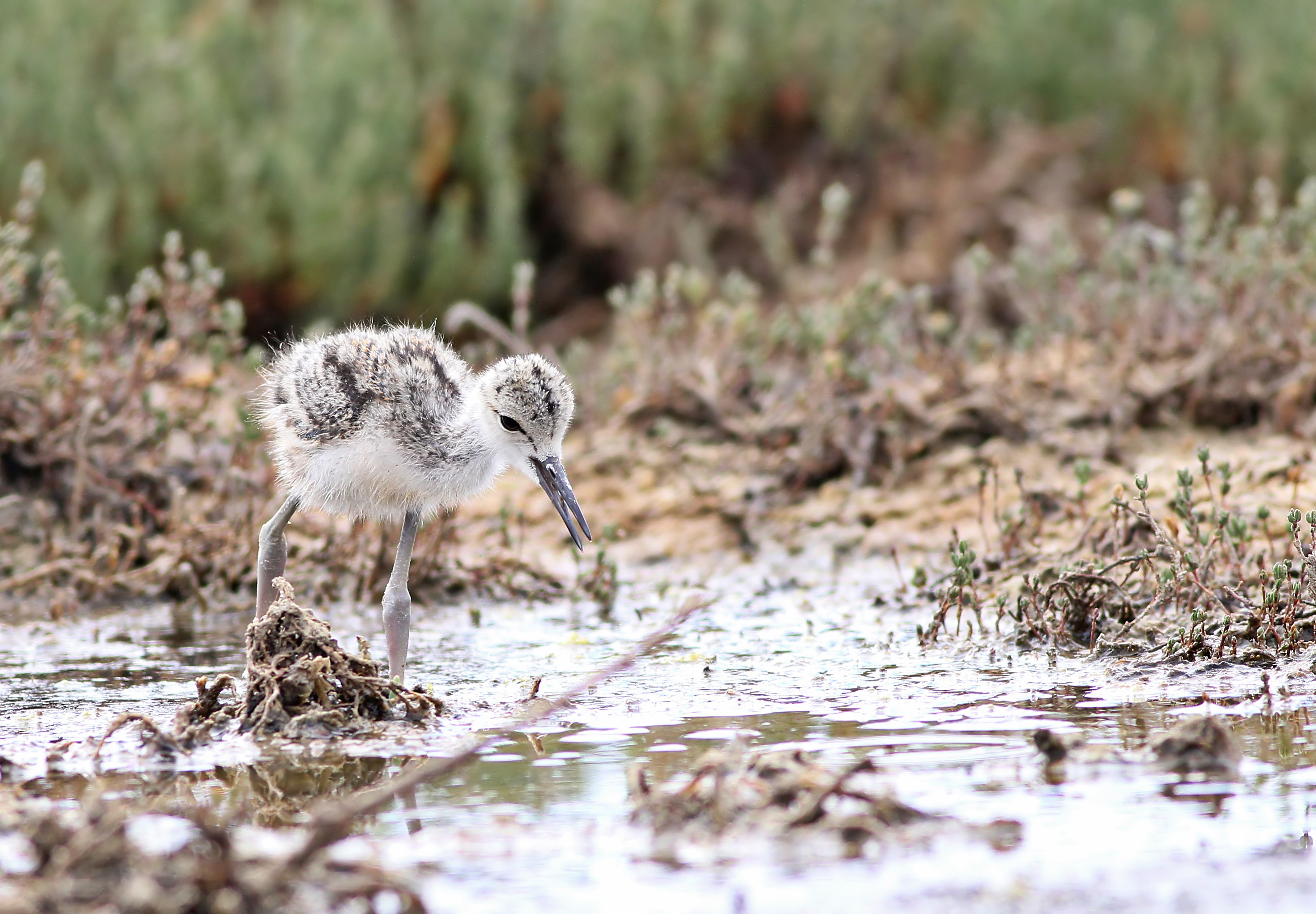 Black-necked Stilt Himantopus mexicanus chick feeding on Marsh Flies near San Jose, CA.